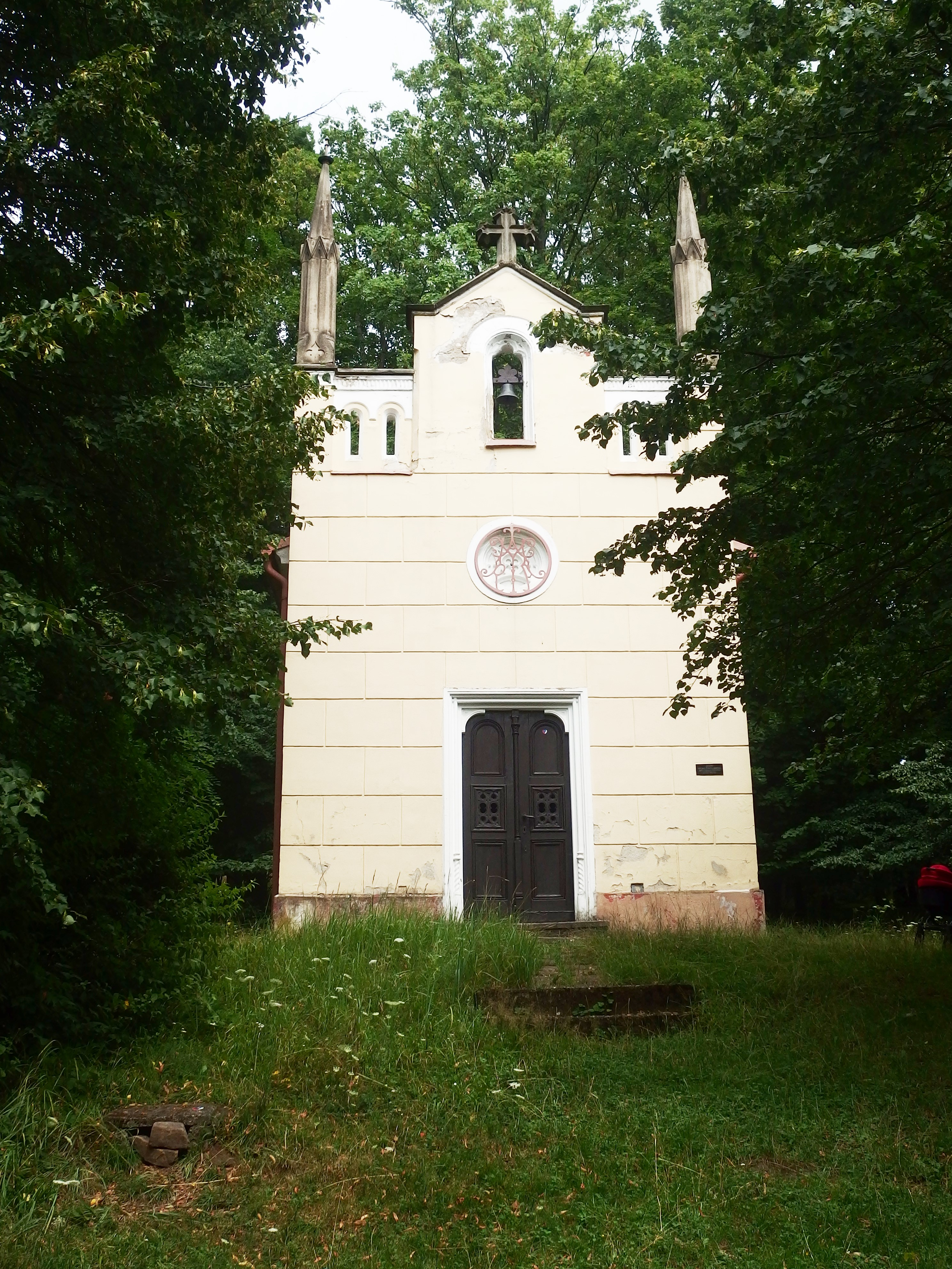 Přílepy, Kroměříž District, Czech Republic.